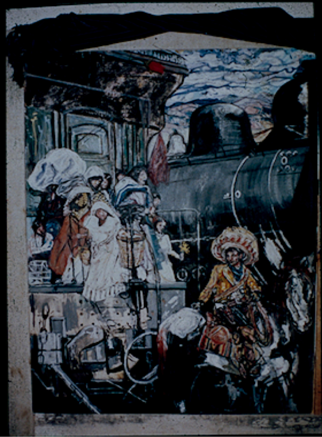 Ealy Mays's depiction of a travel by train in the classic Mexican outback at the turn of the century